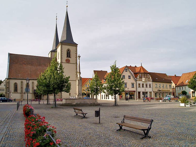 Hassfurt, Market Square and Church, Germany